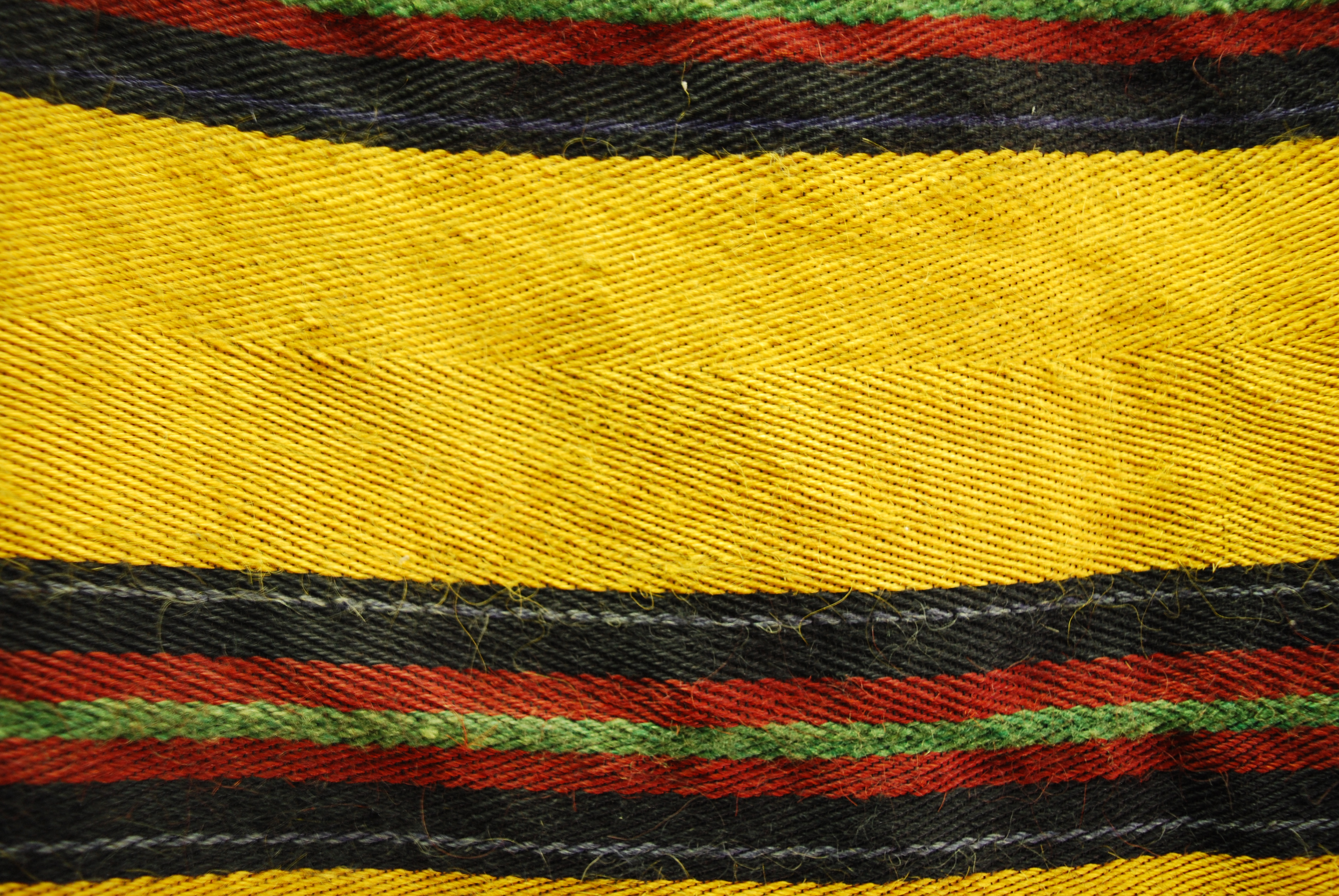 Part of linen apron with colorful horizontal pattern, from Maramures region. Collection of Ethnographic Museum in Sighetu Marmației.